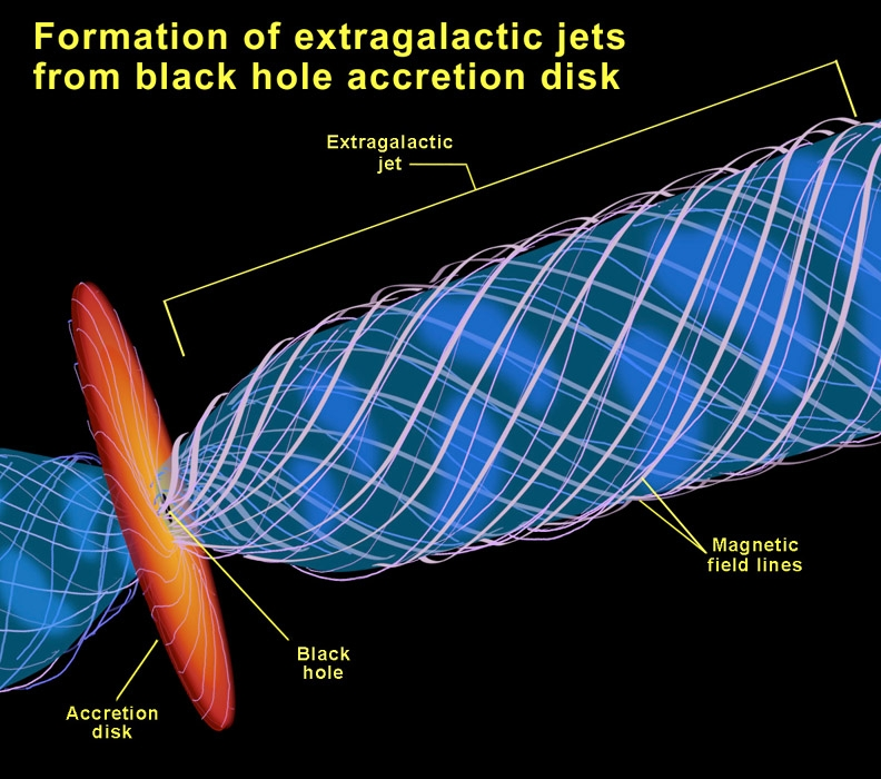 Black hole jet diagram. Original description: This artist's concept reveals the anatomy of a blazar. A blazar refers to a type of quasar, a bright galaxy with an active supermassive black hole at its core. Like quasars, blazars have particle jets, only the jets -- by chance alignment -- are pointed directly in Earth's direction. Blazars are strong gamma-ray emitters, where as quasars are strong emitters of X rays, visible light, and radio waves.